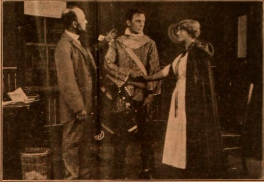 A film still from Oh, What a Knight! by the Thanhouser Company. Released in 1910.